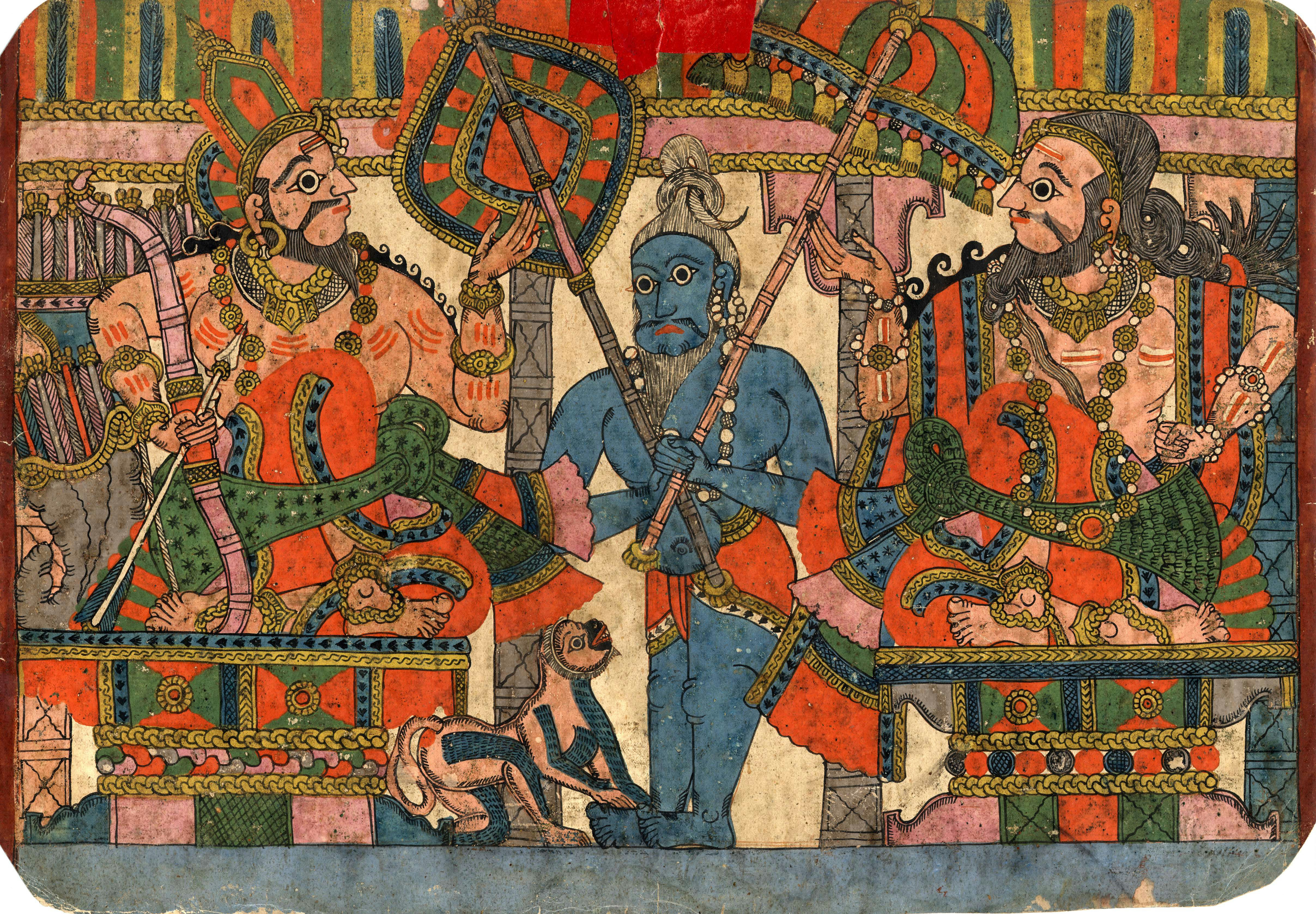 Story-telling painting, in gouache, of the 'Paithan' type, illustrating a narrative from the Mahabharata. The sage Vyasa and the king Janamejaya. With a background of a pillared hall, the sage Vyasa, seen here on the right, narrates the story of Harishchandra to king Janamejaya. Both characters are seated facing each other on decorated thrones, with one knee resting on the seat and the other flexed, bound by a yogapatta. This detail signifies that they are steeped in a serious conversation. The king carries the appurtenances of his status: a crown on his head, bow leaning on his shoulder, arrow in his right hand, and a filled quiver resting at his side. The sage is elegantly dressed and bejewelled, with matted hair, knotted beard and a yajnopavita prominently shown across his chest (incidentally, the wrong way round: it hangs from the right shoulder instead of hanging from the left). Between Janamejaya and Vyasa stands a third person, with matter hair and dressed in a loincloth, possibly a disciple of the sage, carrying a fan and an umbrella, appurtenances of both gods and kings. A monkey is shown frolicking at his feet.